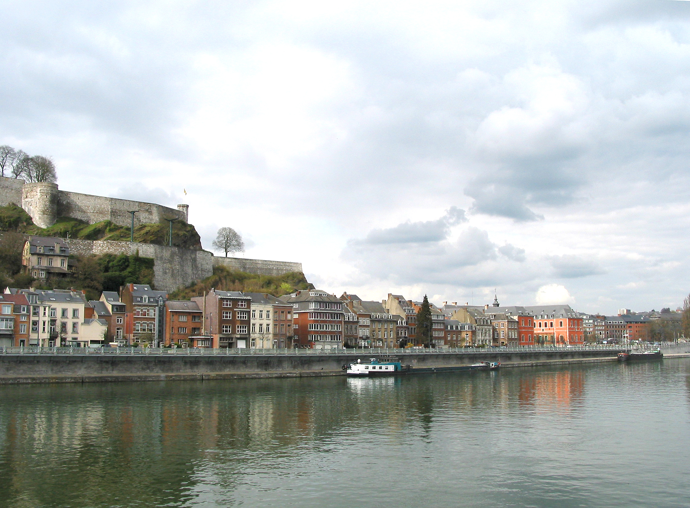 Namur (Belgium), the Meuse river, the citadel, the city and the walloon parliament.